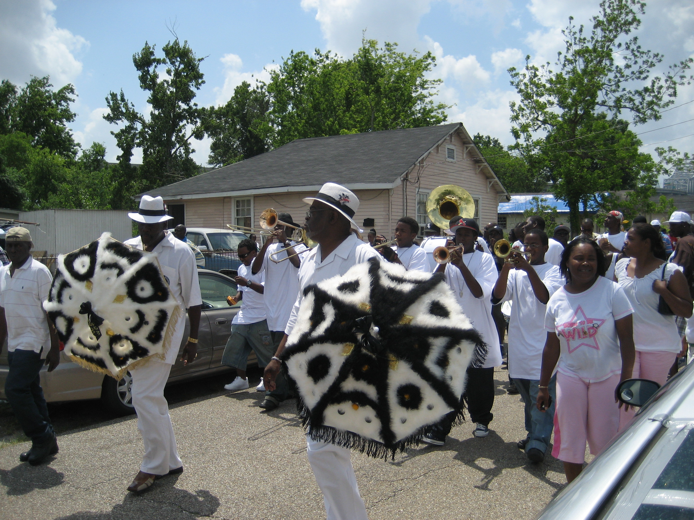 New Orleans: "Mardi Gras Indian" celebration, Algiers neighborhood